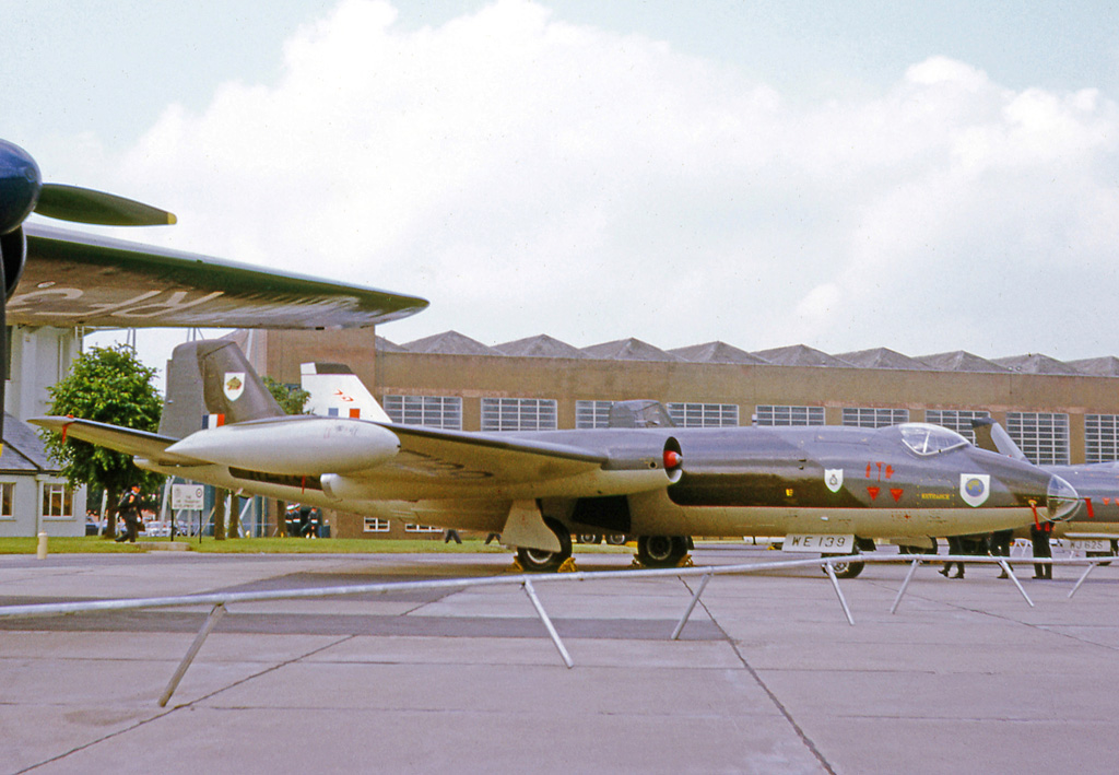 English Electric Canberra PR.3 WE139 of 231 OCU at RAF Abingdon in 1968